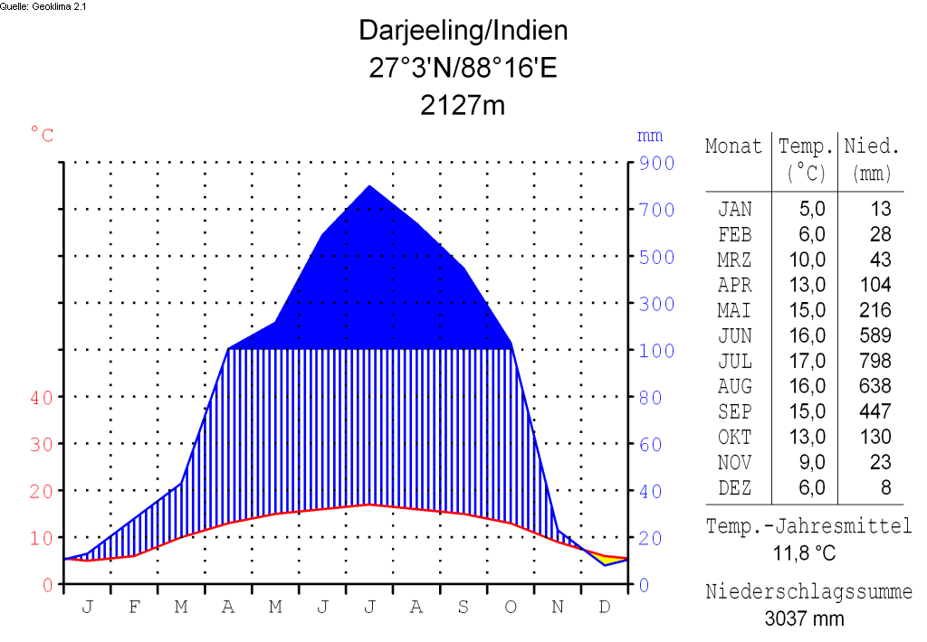 climate chart in the format by Walter and Lieth, metric, °Celsisus and millimeters, made with Geoklima 2.1